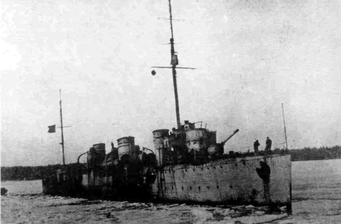 The Soviet Russian destroyer Gavriil, April 1918.